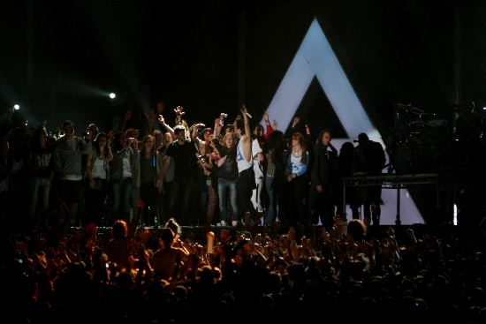 Thirty Seconds to Mars performing "Kings and Queens" on July 2, 2011 in Sopron, Hungary